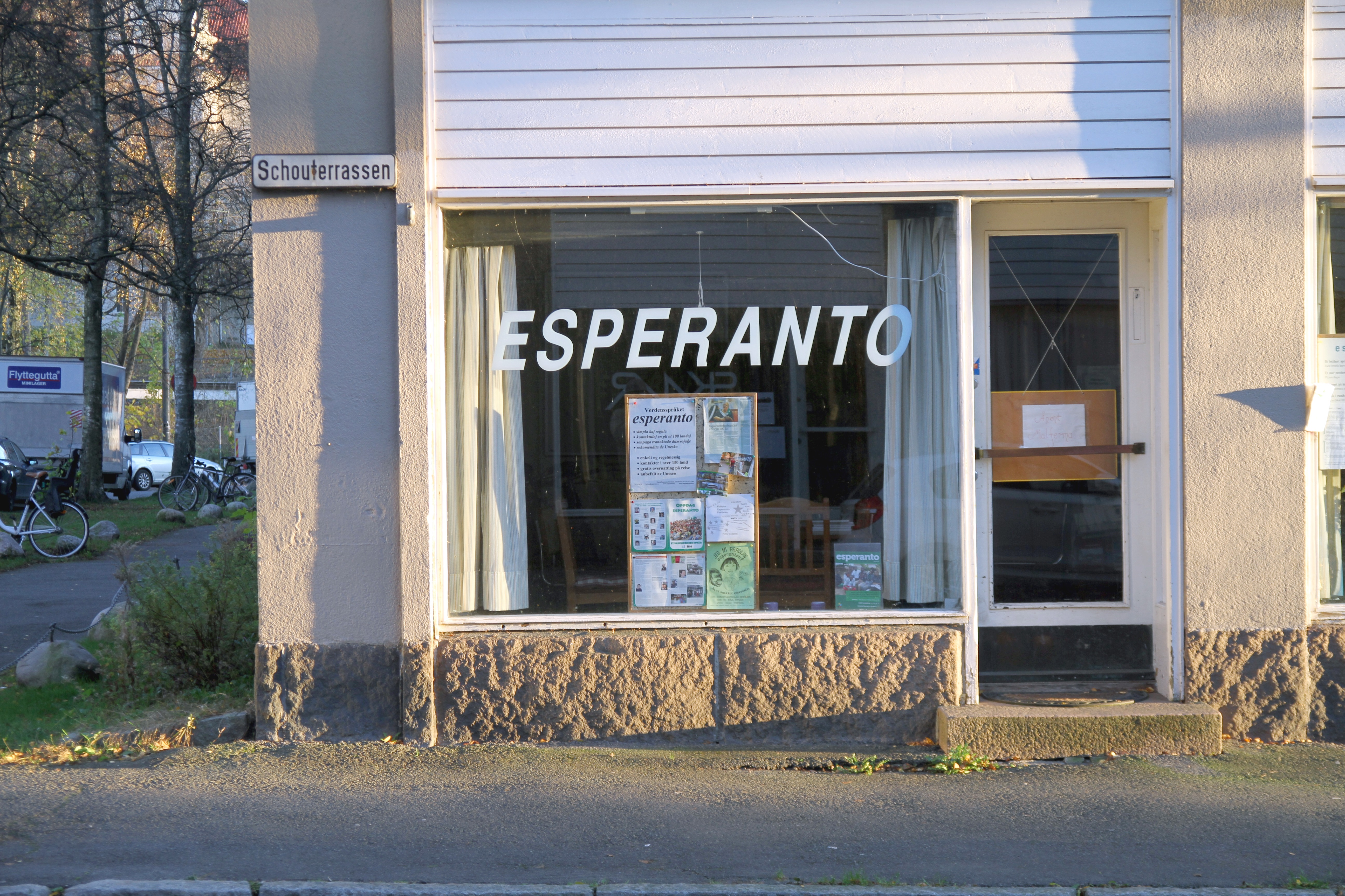 Esperantonia, the headquarters of the Esperanto movement in Norway.